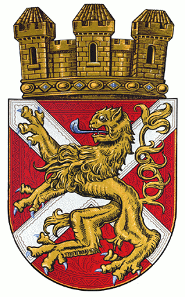 coat of arms of the German city of Lehrte